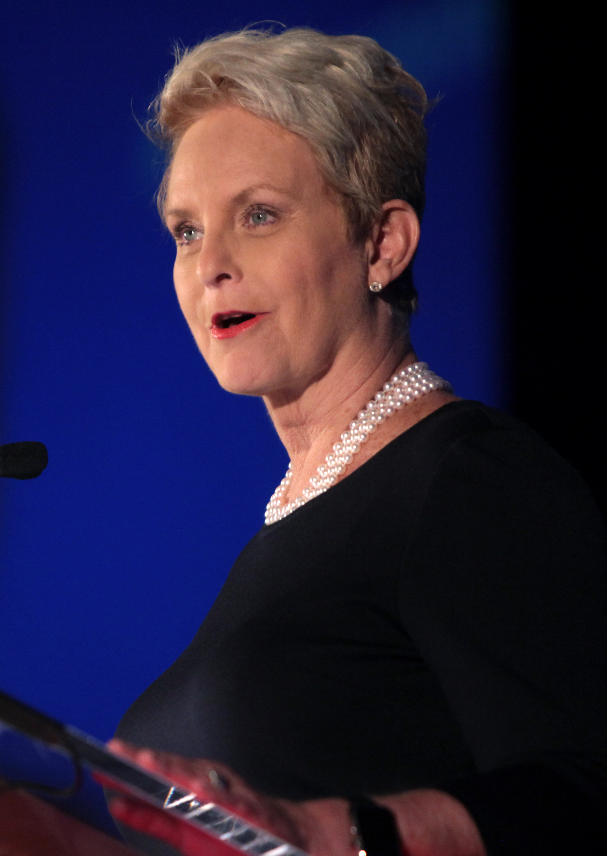 Cindy McCain speaking at an event in Phoenix, Arizona.